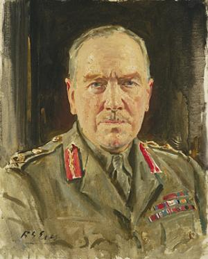 Portrait of Sir Robert Gordon-Finlayson.